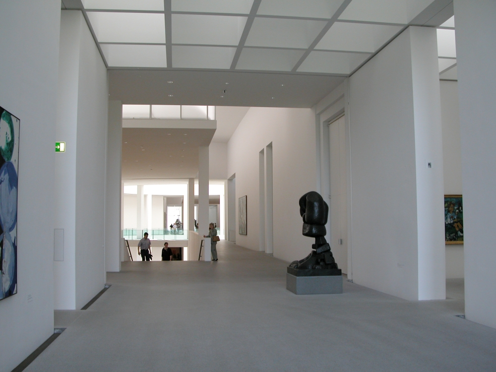 Pinakothek der Moderne, Munich, Germany